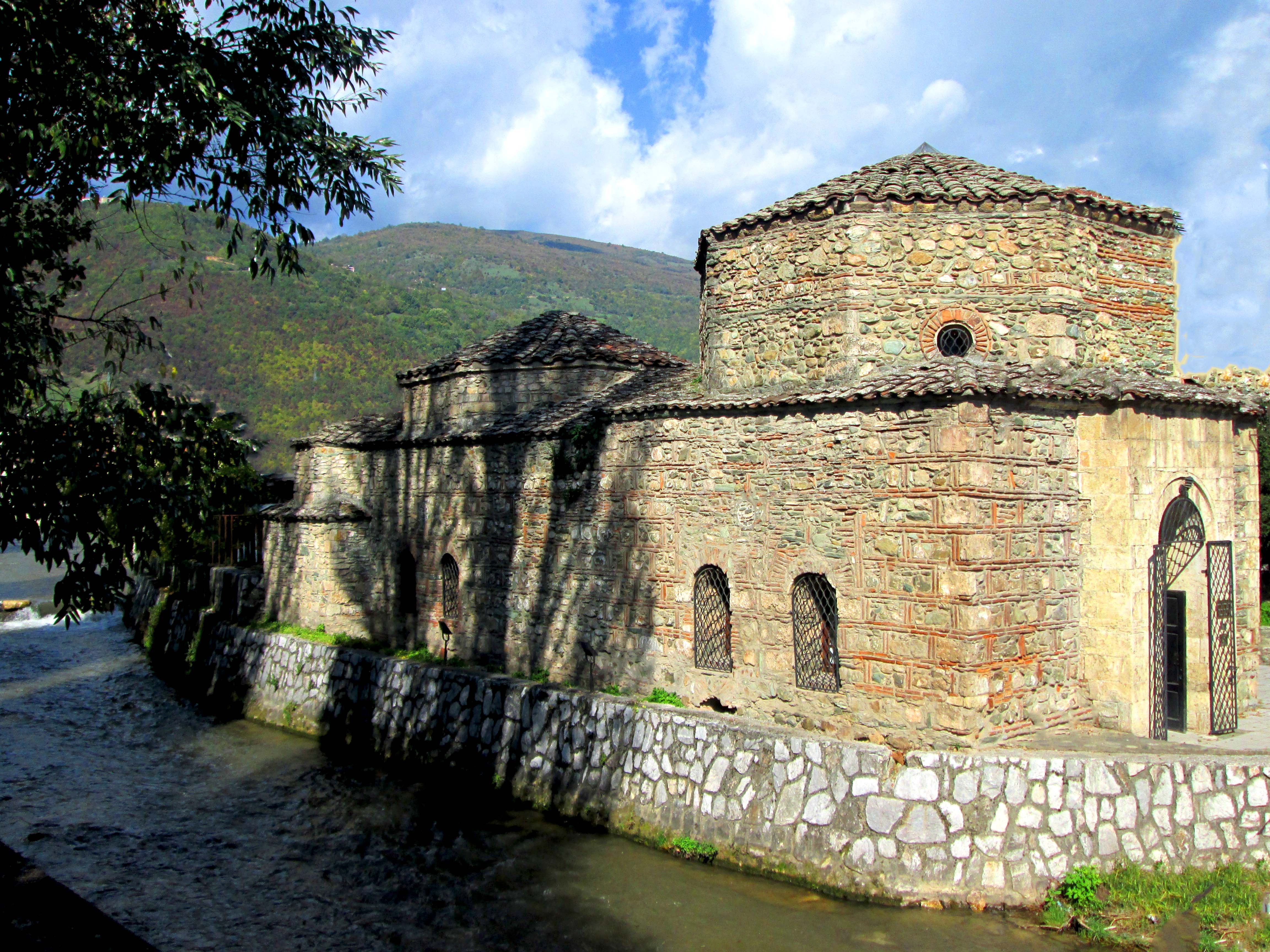 Bey Hamam or Turkish hammam or Turkish bath was built in the 15th century it was public bath and body maintenance purity dense populations of entire 335 m2 until 1962 when it became a space for art exhibitions adapted and renovated into an art gallery in the Tetovo city , so in 1984 to be declared and protected as historical heritage of Macedonia